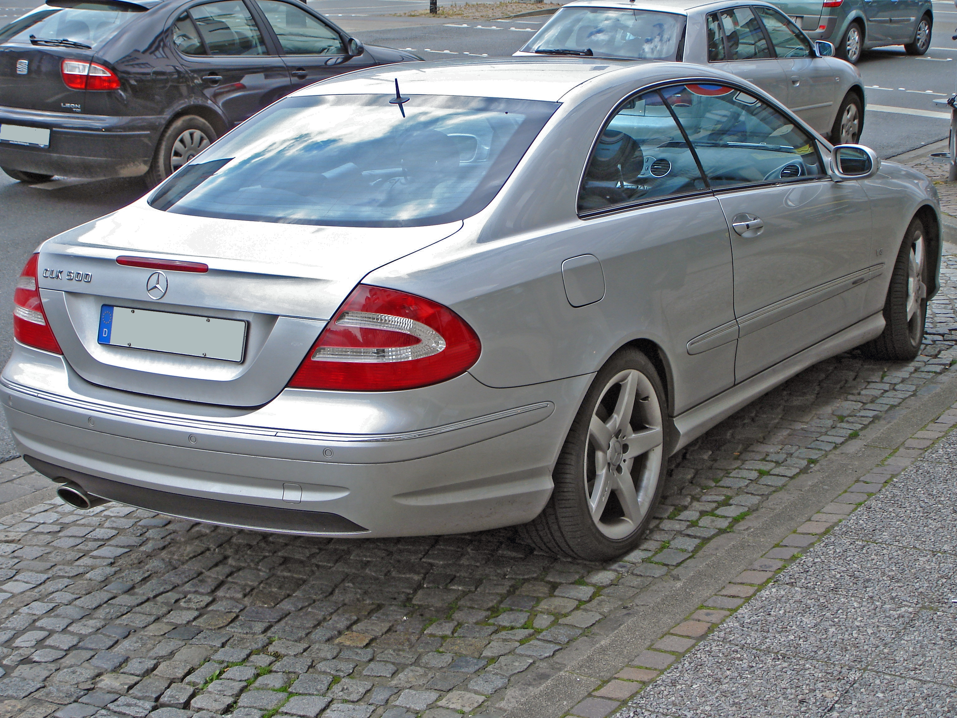 Mercedes CLK 500 V8 C209 rear.